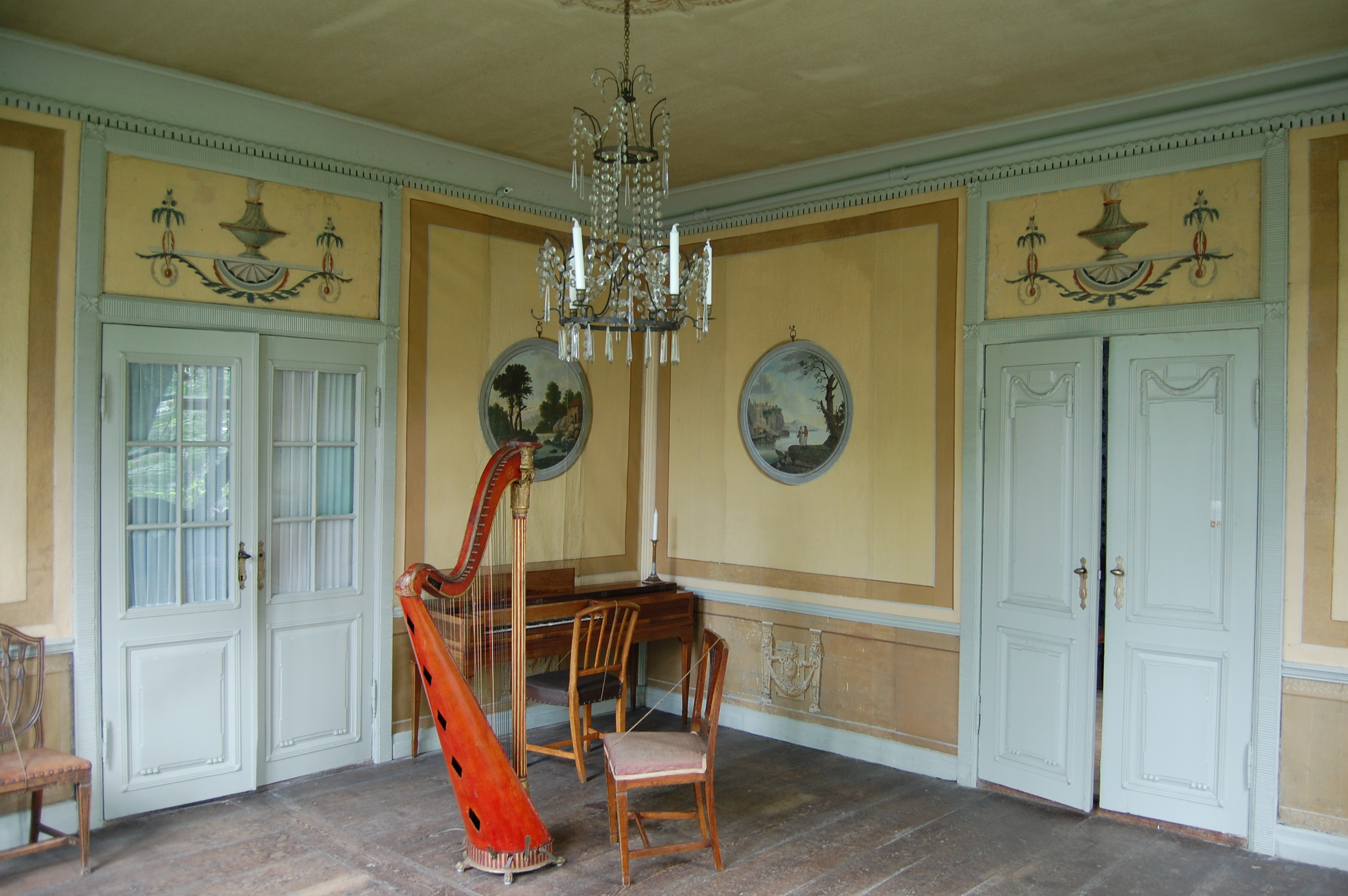 Interior of Frydenlund at Gamle Bergen Museum